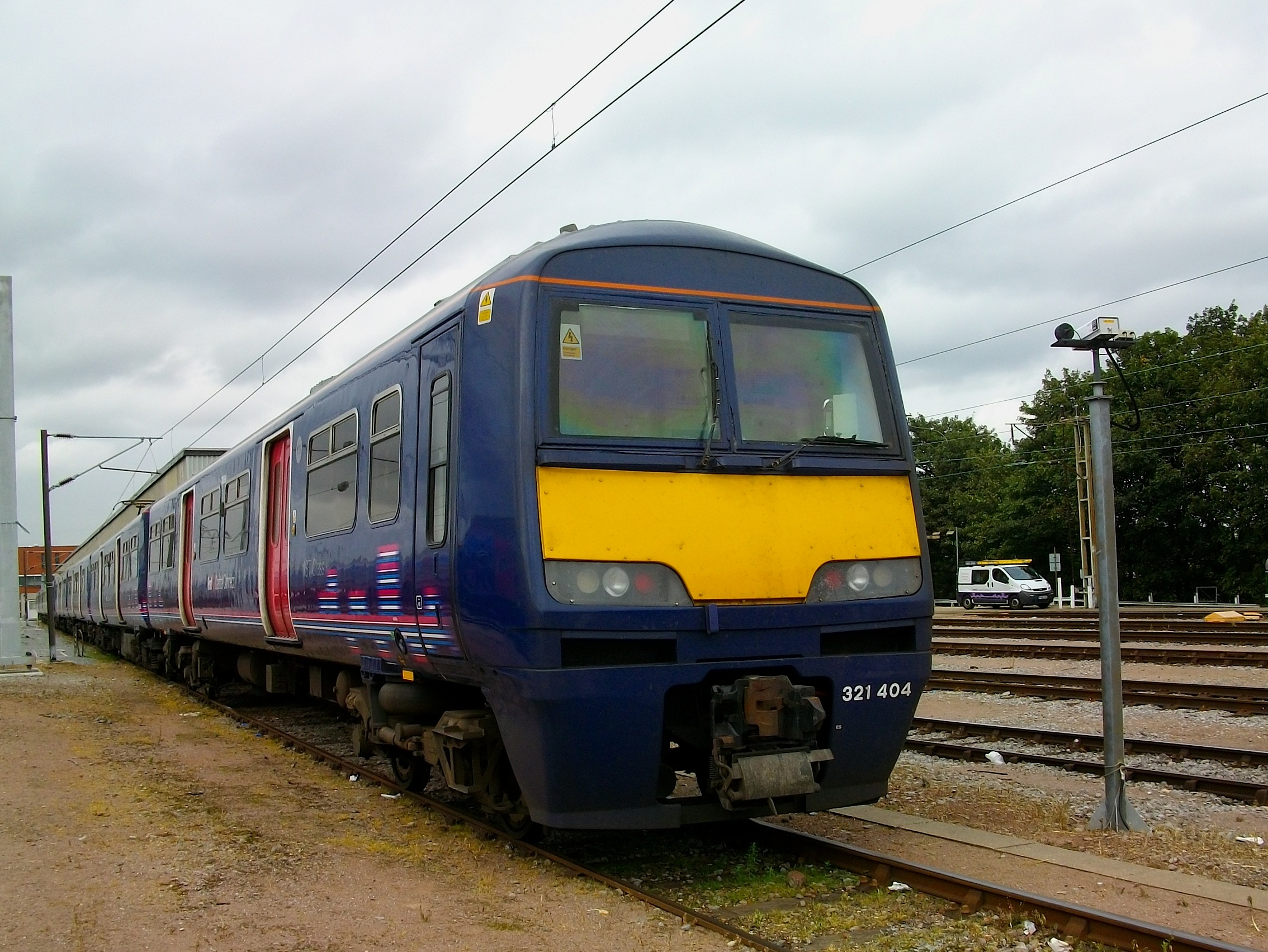 The first Class 321 EMU for First Capital Connect was No. 321404 and is seen at Hornsey TMD.